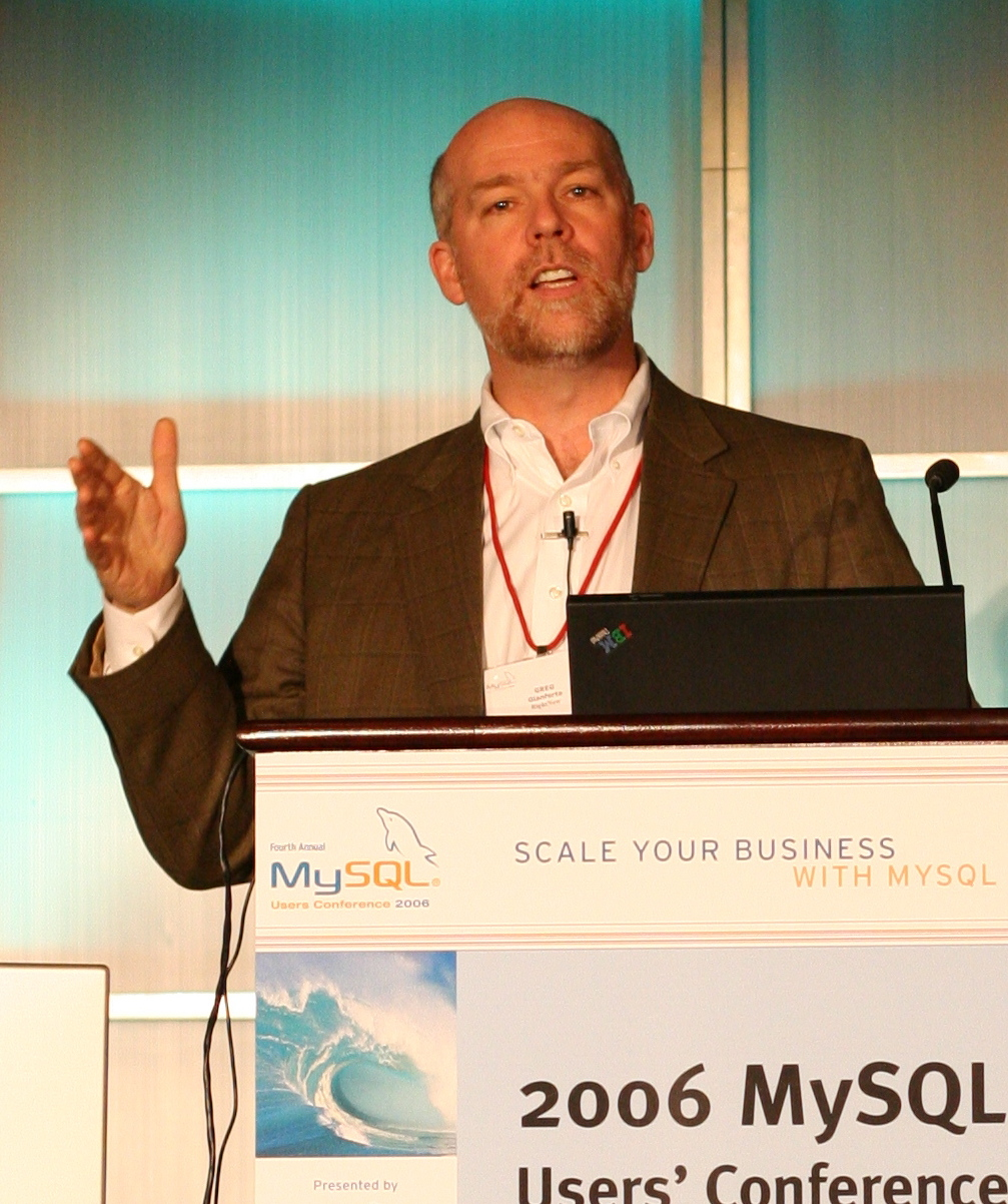 greg gianforte preaching to the crowd